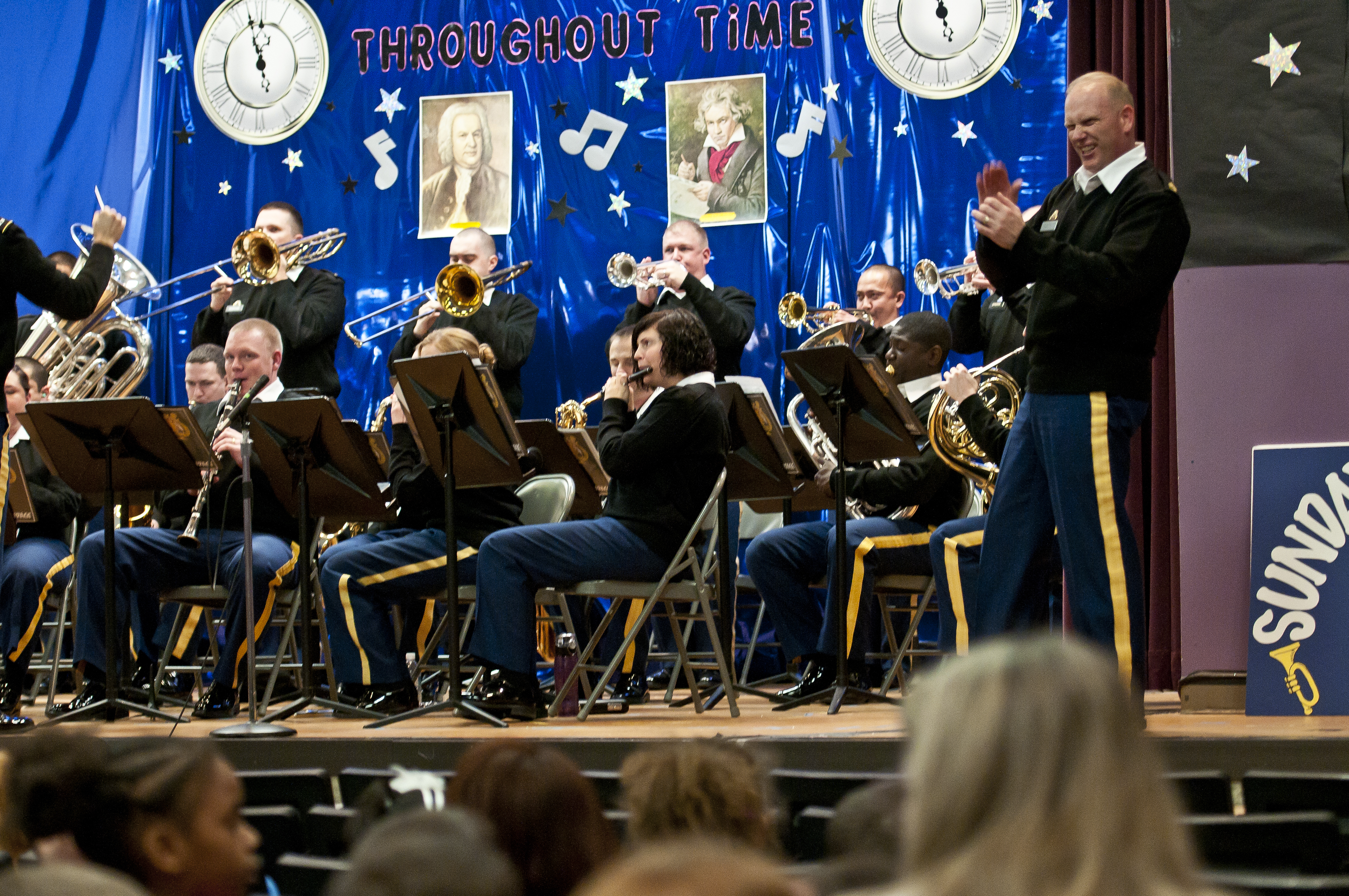 Sgt. 1st Class Thomas Babbit (right), drummer for the 56th Army Band, claps his hands as he rouses students during a performance by members of the band, for children at Evergreen Elementary on Joint Base Lewis-McChord, Wash., March 23, as part of Music in Our Schools Month. The band started playing shows to honor the month last year, when it put on 27 concerts for schools across JBLM and in surrounding communities.